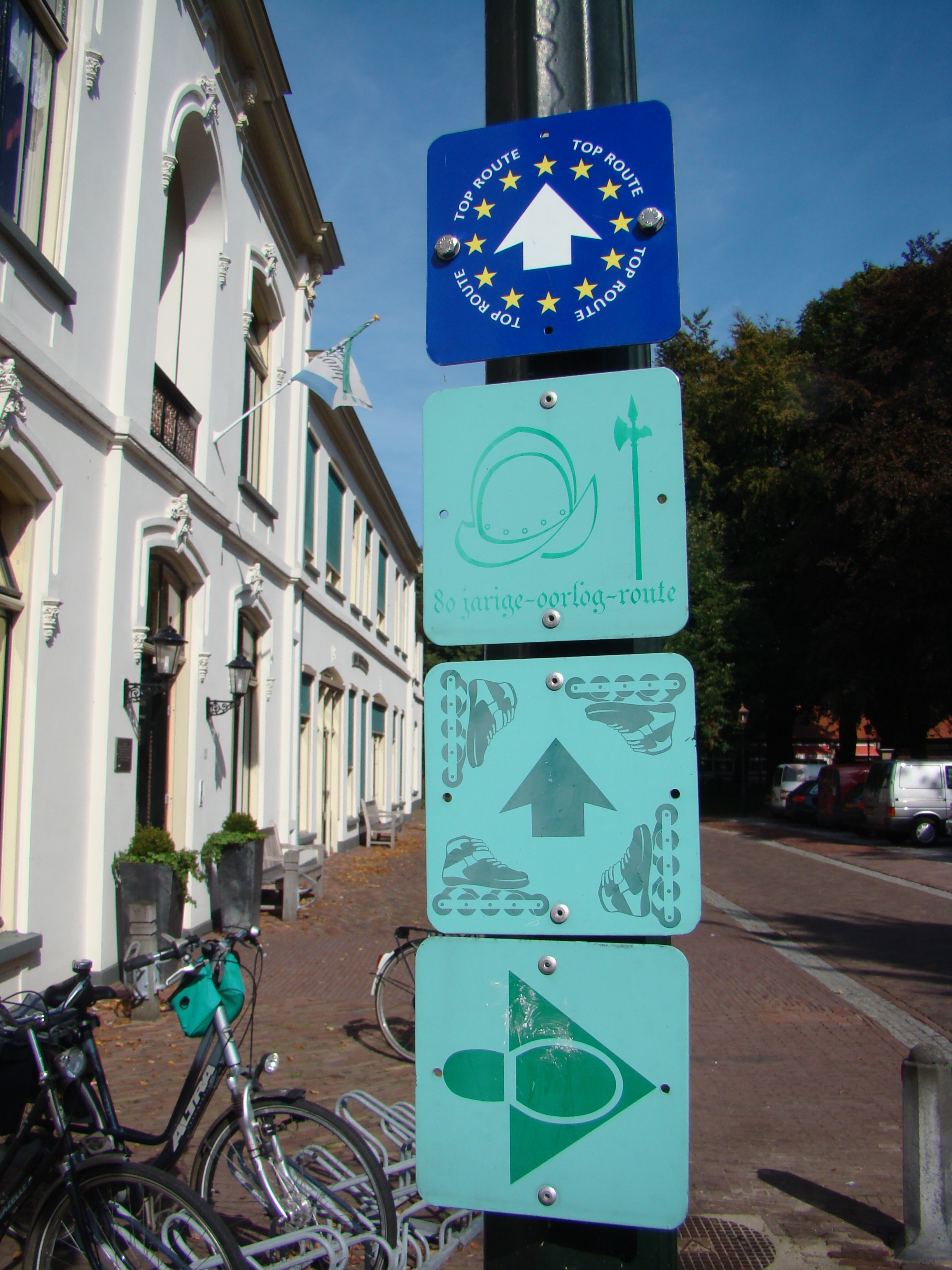 Cycling route signs in Bredevoort (Netherlands)